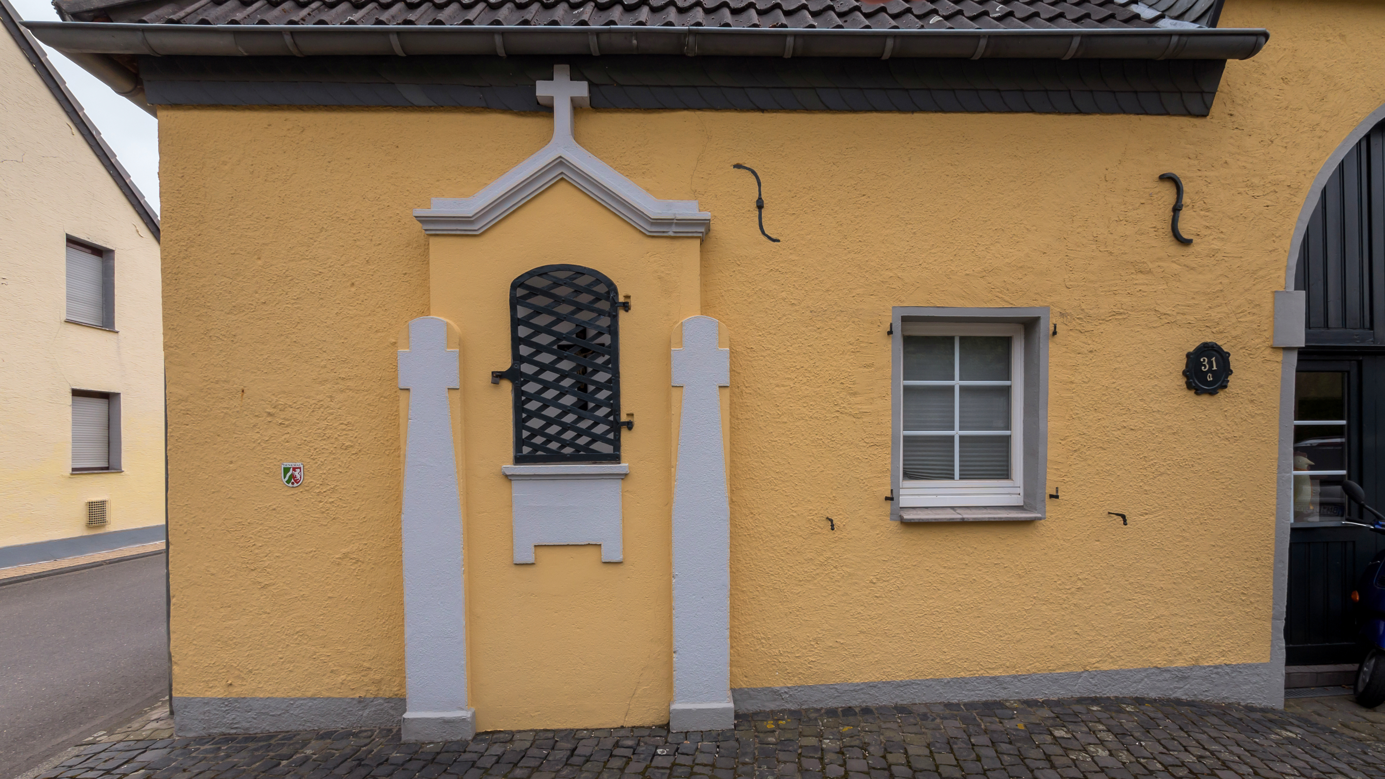 Kleintroisdorf - Oberembter Straße 31 Kapitelshof mit Bilderstock IIIThis is a photograph of an architectural monument., no. 78